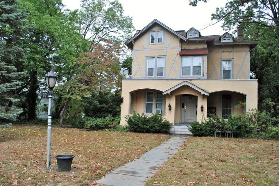 Image originally published in Queer Places: Retracing the Steps of LGBTQ people around the World Authored by Elisa Rolle